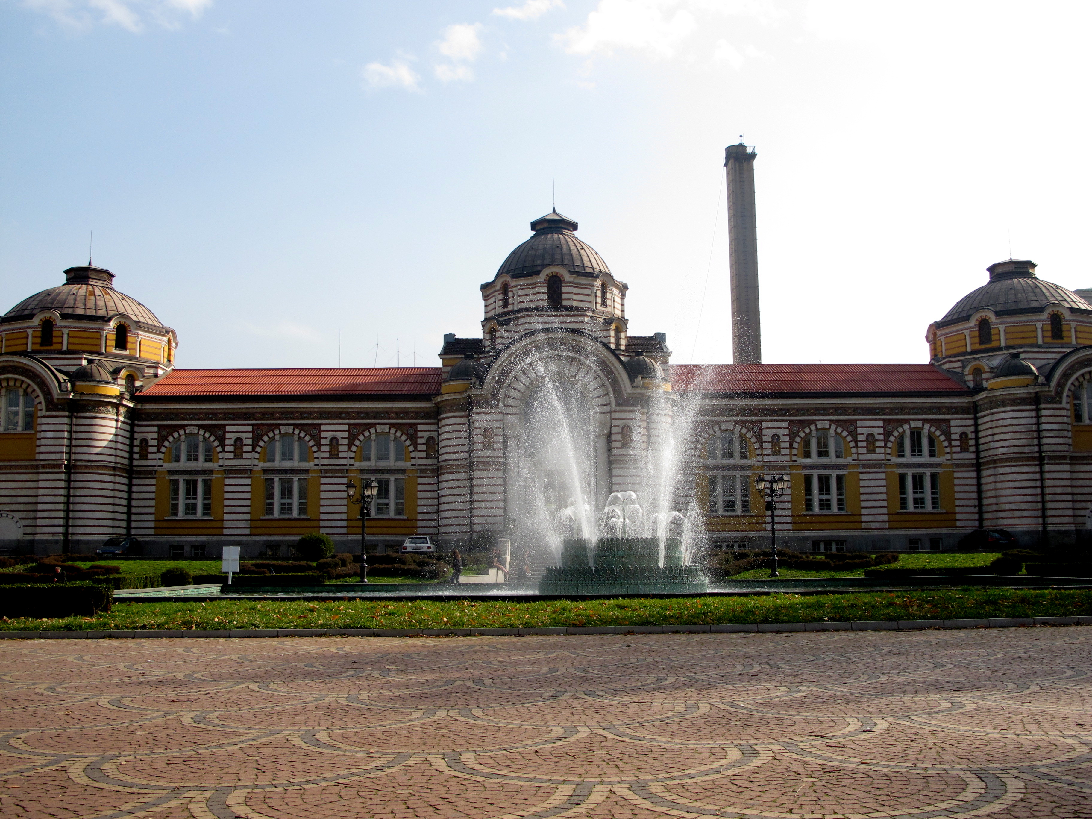 Sofia Public Mineral Baths